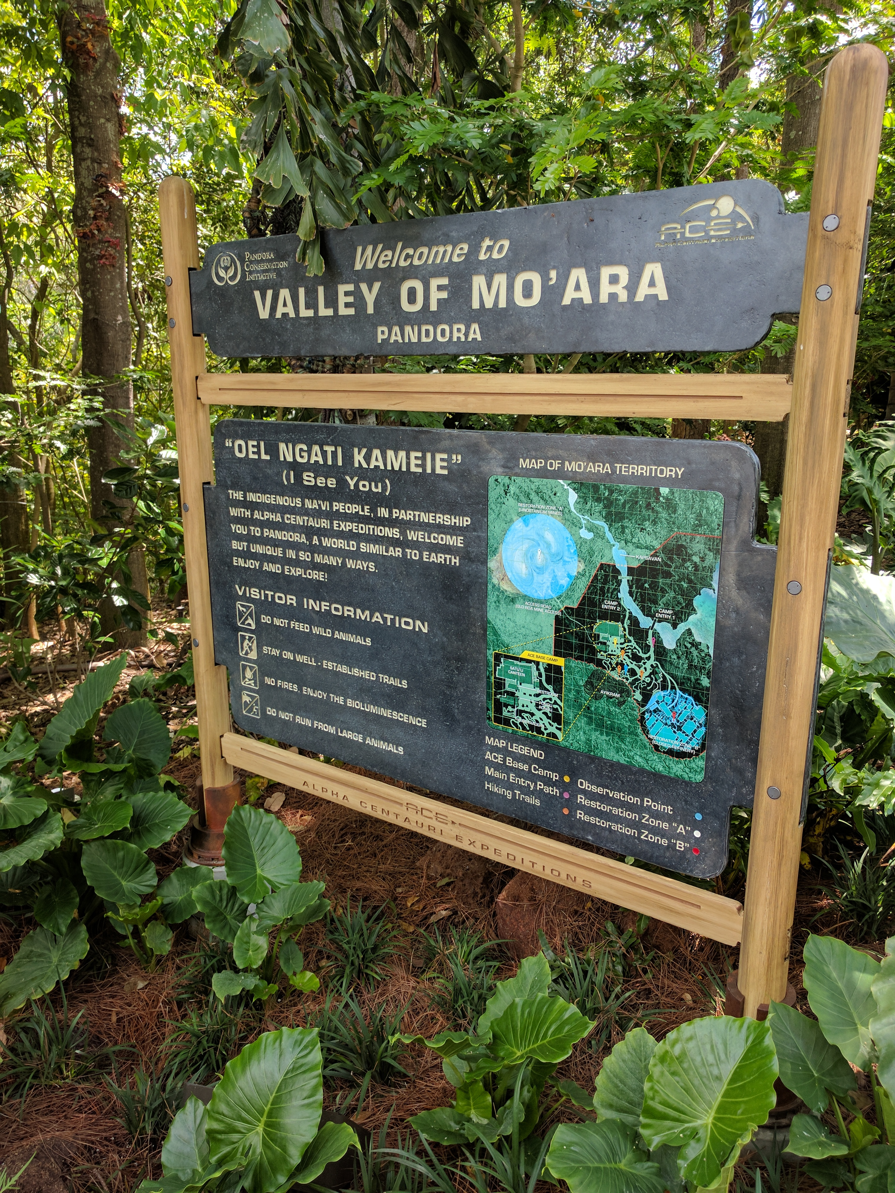 Cast Pongu (Party) at Pandora-The World of Avatar